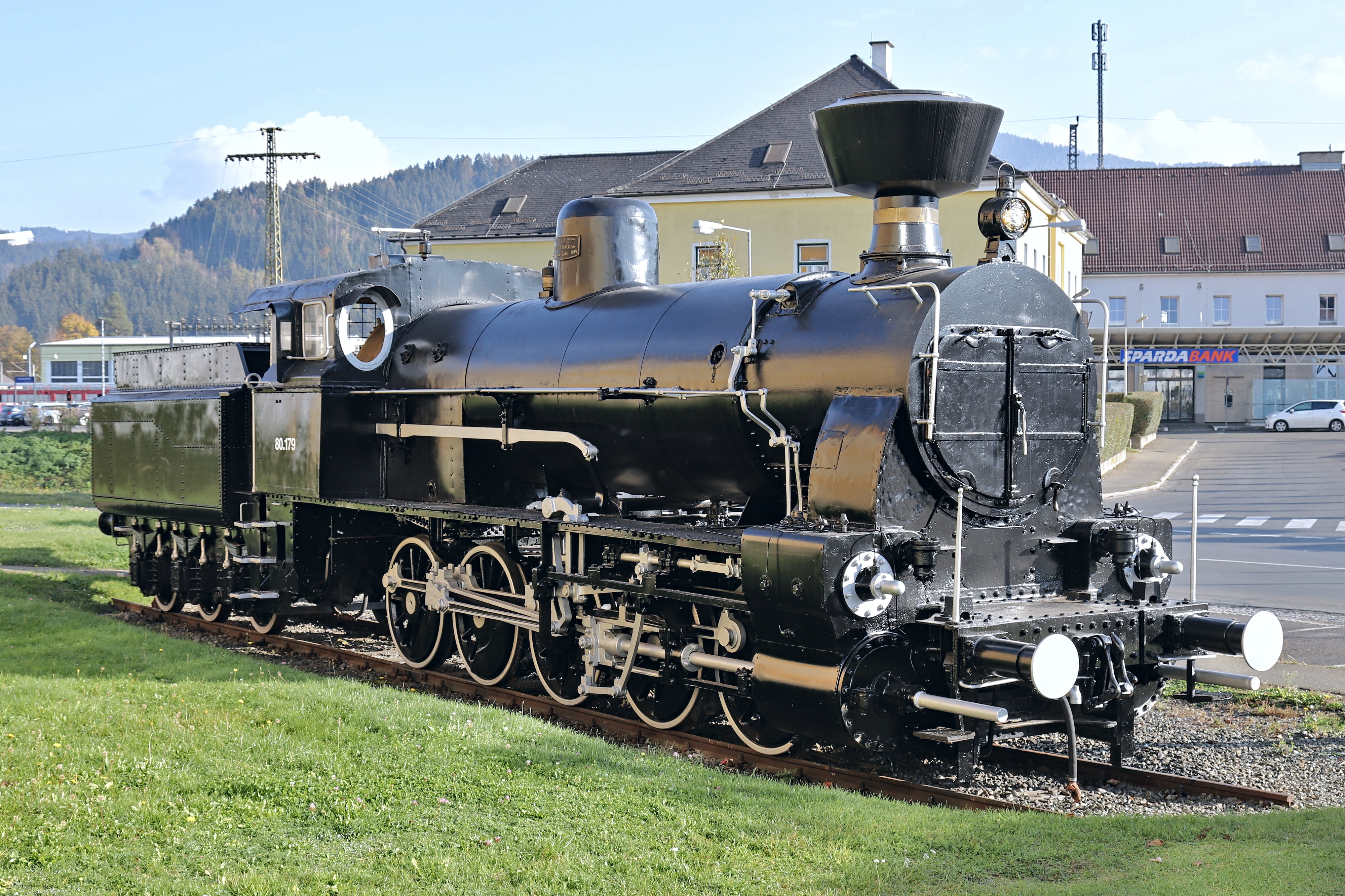 Locomotive 80.179 on plinth at Knittelfeld station.